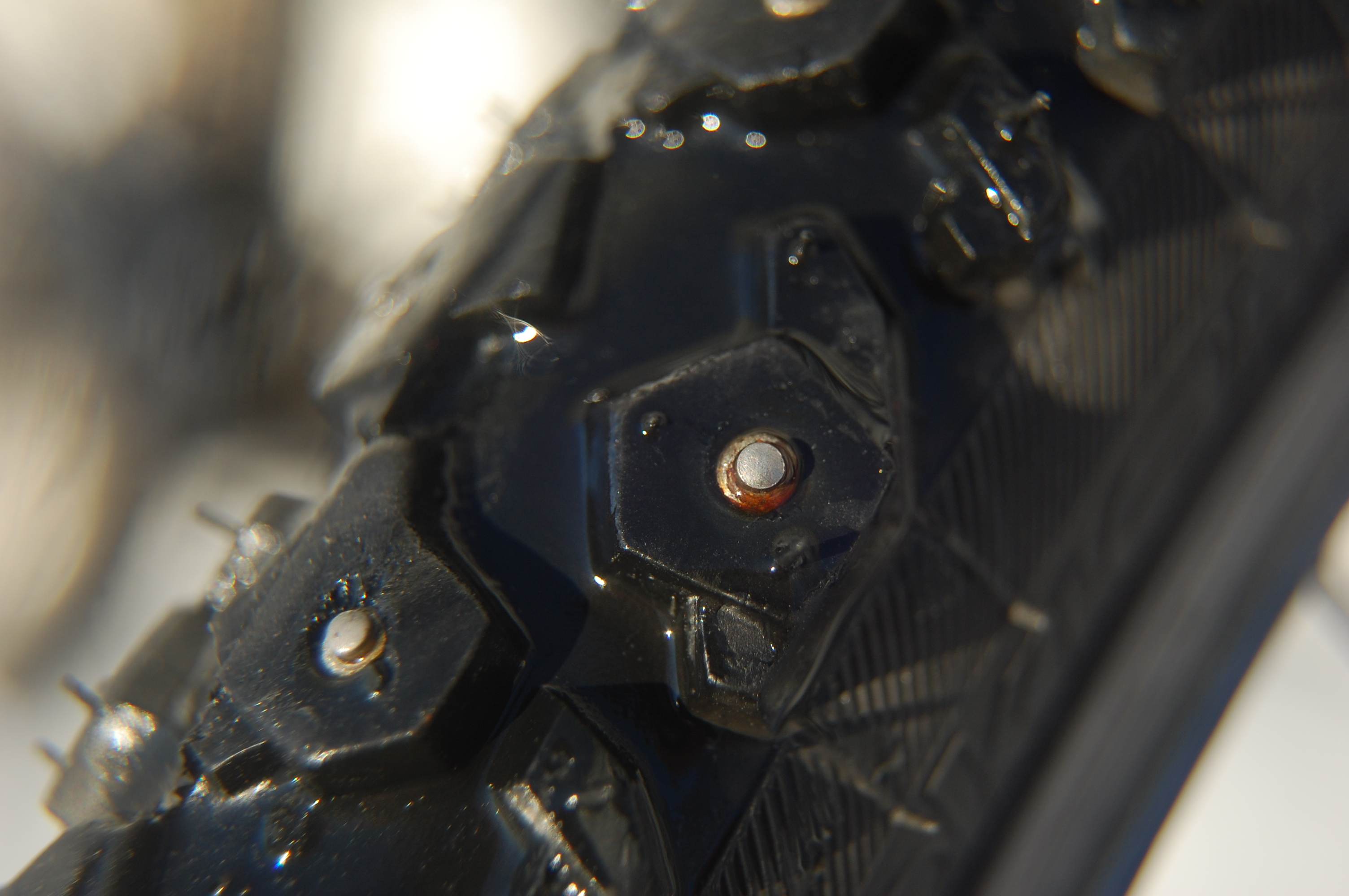 Close up of a Nokian Hakkapeliitta W240 studded bicycle tyre ridden 700 km